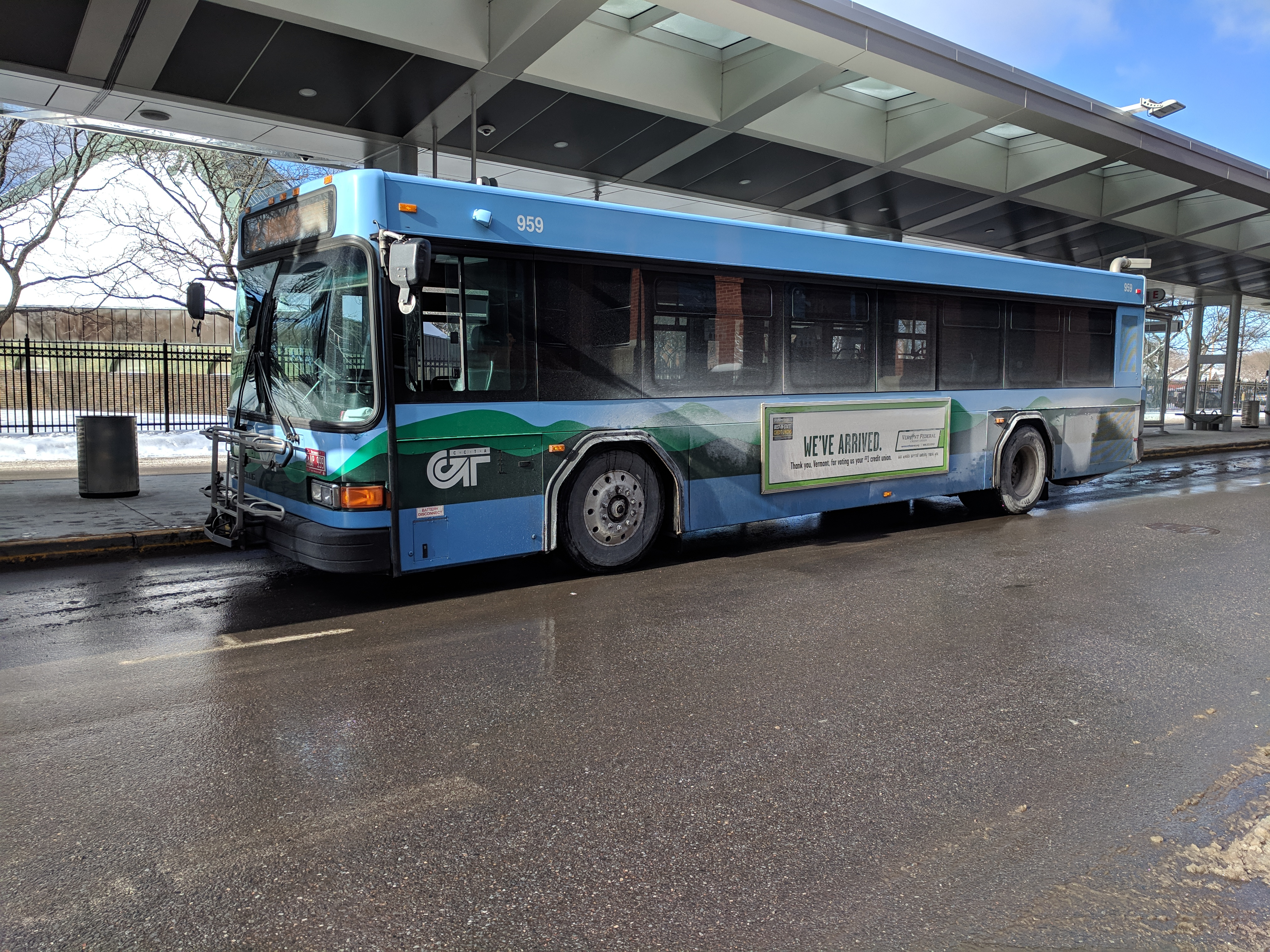 Green Mountain Transit Buses GMT Burlington Vermont city transit January 2019 CCTA